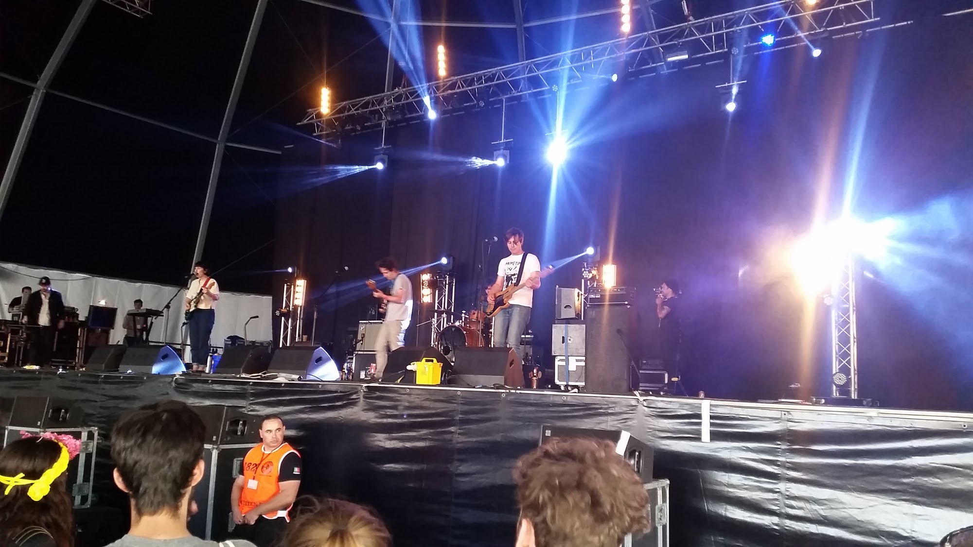 Twerps, band